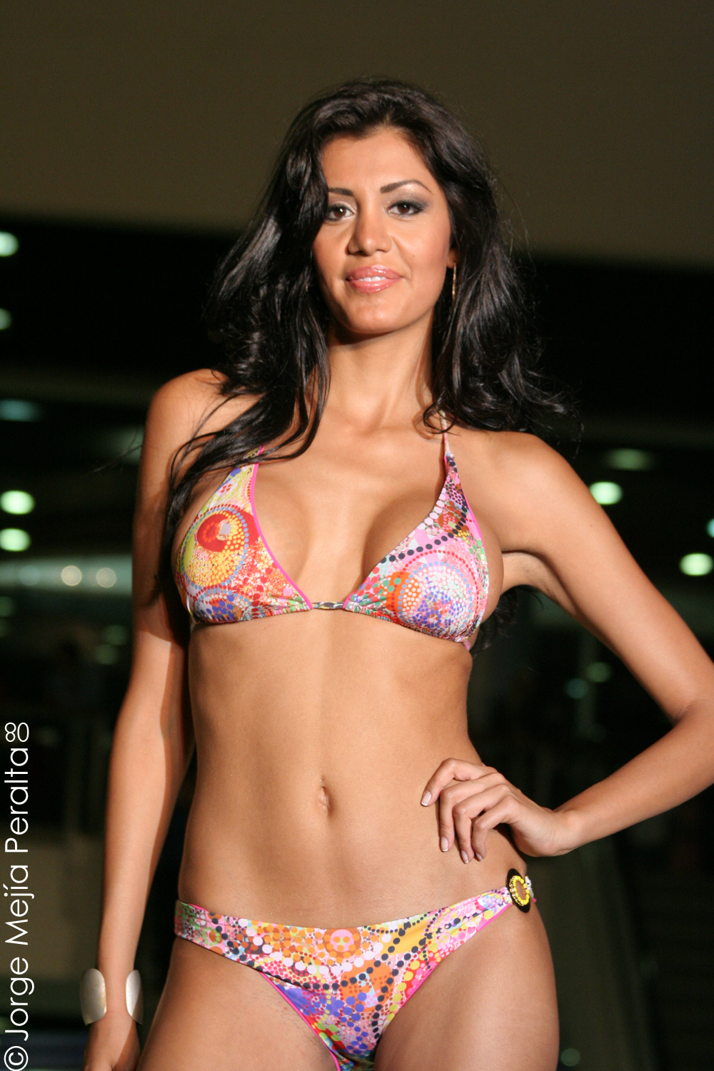 Samantha Tajik. 2008.